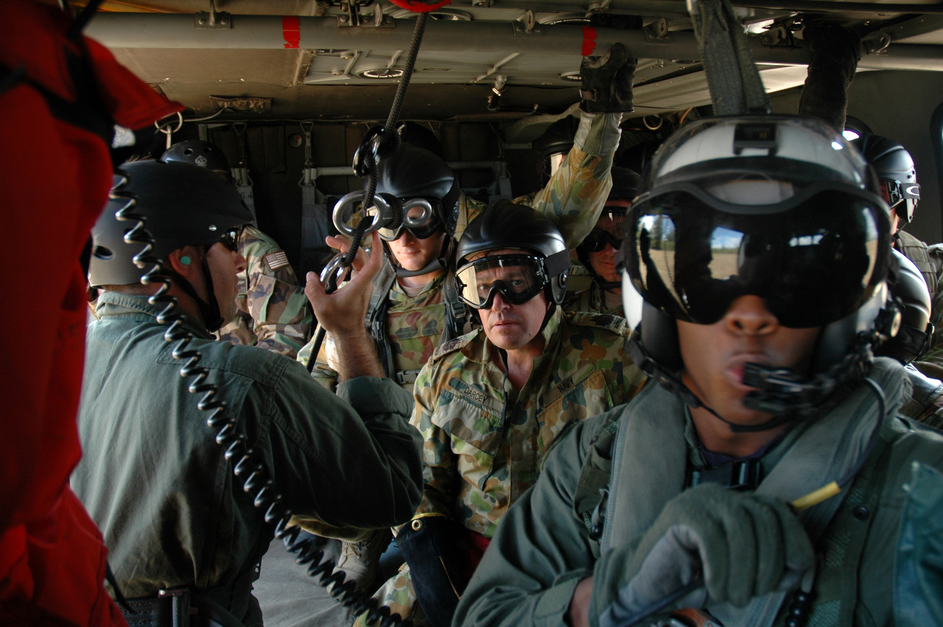 Santa Rita, Guam (April 19, 2006) - A Royal Australian Navy warrant officer, center, waits to rappel from a MH-60S Seahawk helicopter assigned to Helicopter Sea Combat Squadron Two Five (HSC-25), during a Helicopter Rope Suspension Technique (HRST) training exercise held on Polaris Point. The Australian explosive ordnance disposal technicians are on Guam to participate an annual, multi-national EOD exercise known as "Tricrab 2006." Tricrab brings together explosive ordnance disposal units from the United States, Australia and Singapore for training. U.S. Navy photo by Photographer's Mate 2nd Class Nathanael T. Miller (RELEASED)